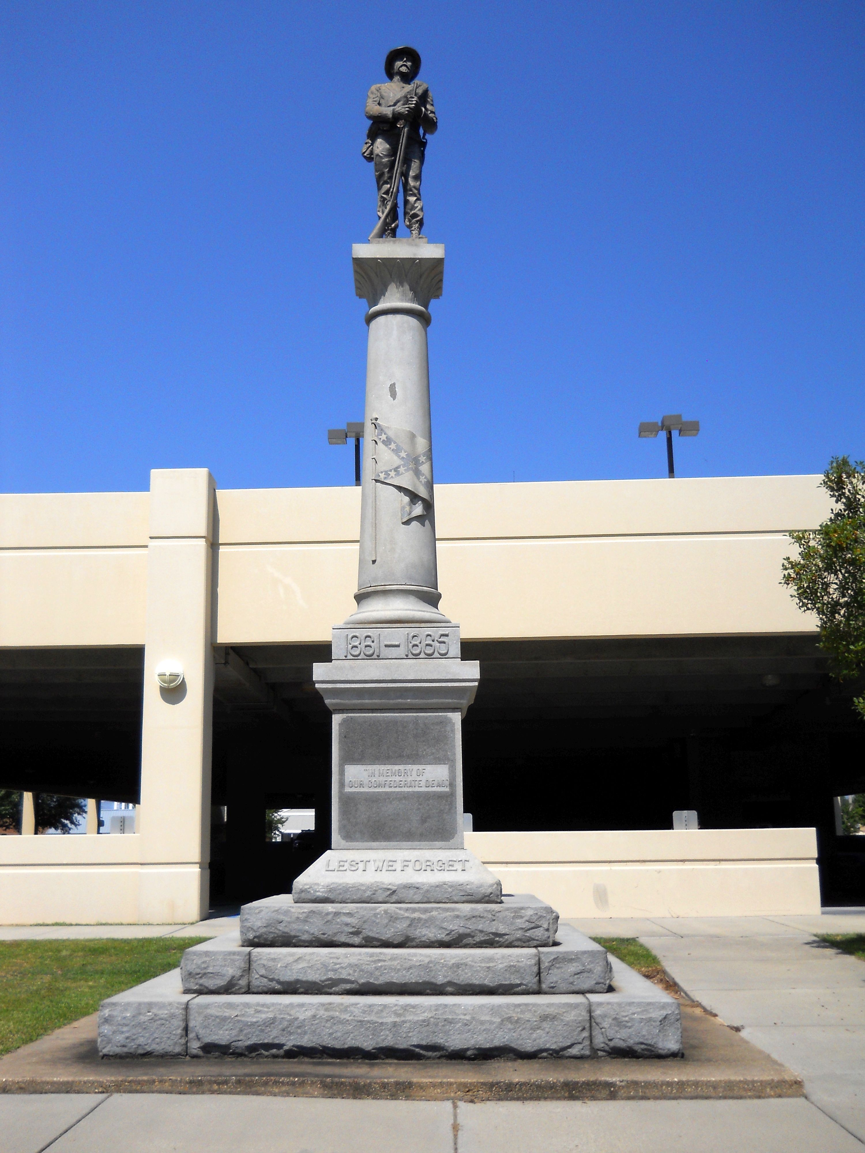 Confederate Monument located on grounds of Harrison County Courthouse, Gulfport, Mississippi